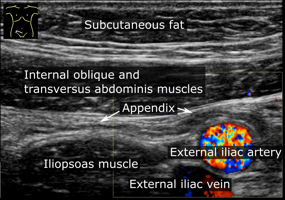 edit Abdominal ultrasound of a 13 year old male with 1 day history of pain near McBurney's point. Ultrasound in this area, however, shows a compressible appendix of normal width.